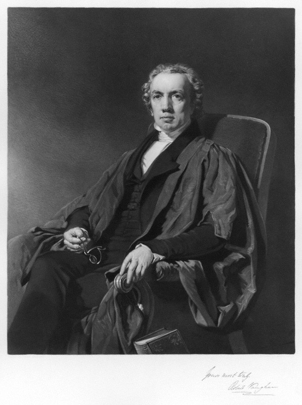 Portrait of Robert Vaughan (1795–1868), English Congregationalist minister and academic.